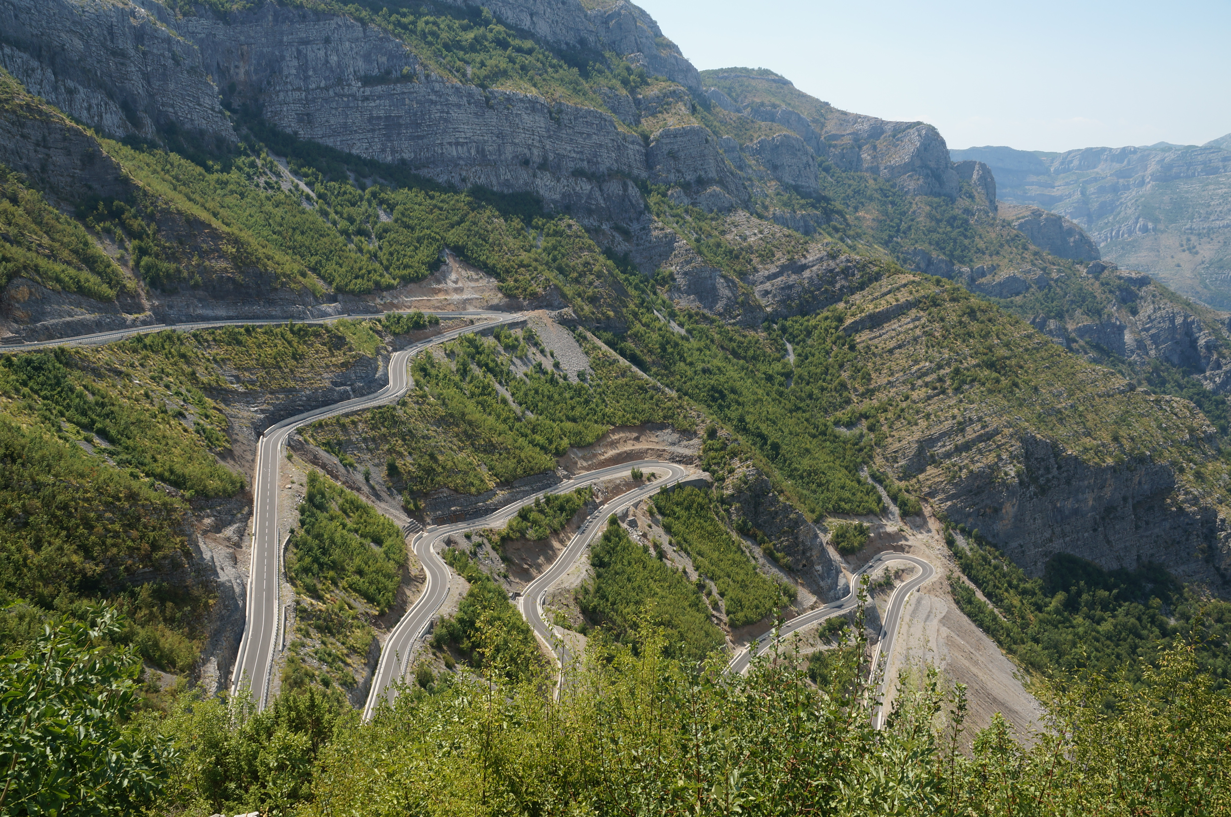 Switchbacks of the road to Kelmend, Northern Albania